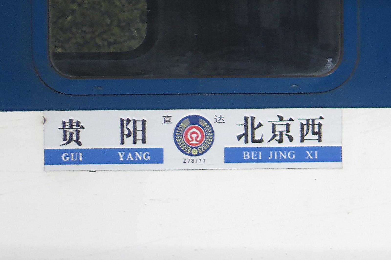 Formerly T87/88, not that train from Hankou.